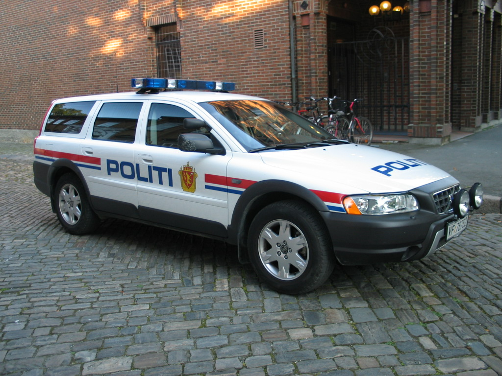 Police car in Trondheim